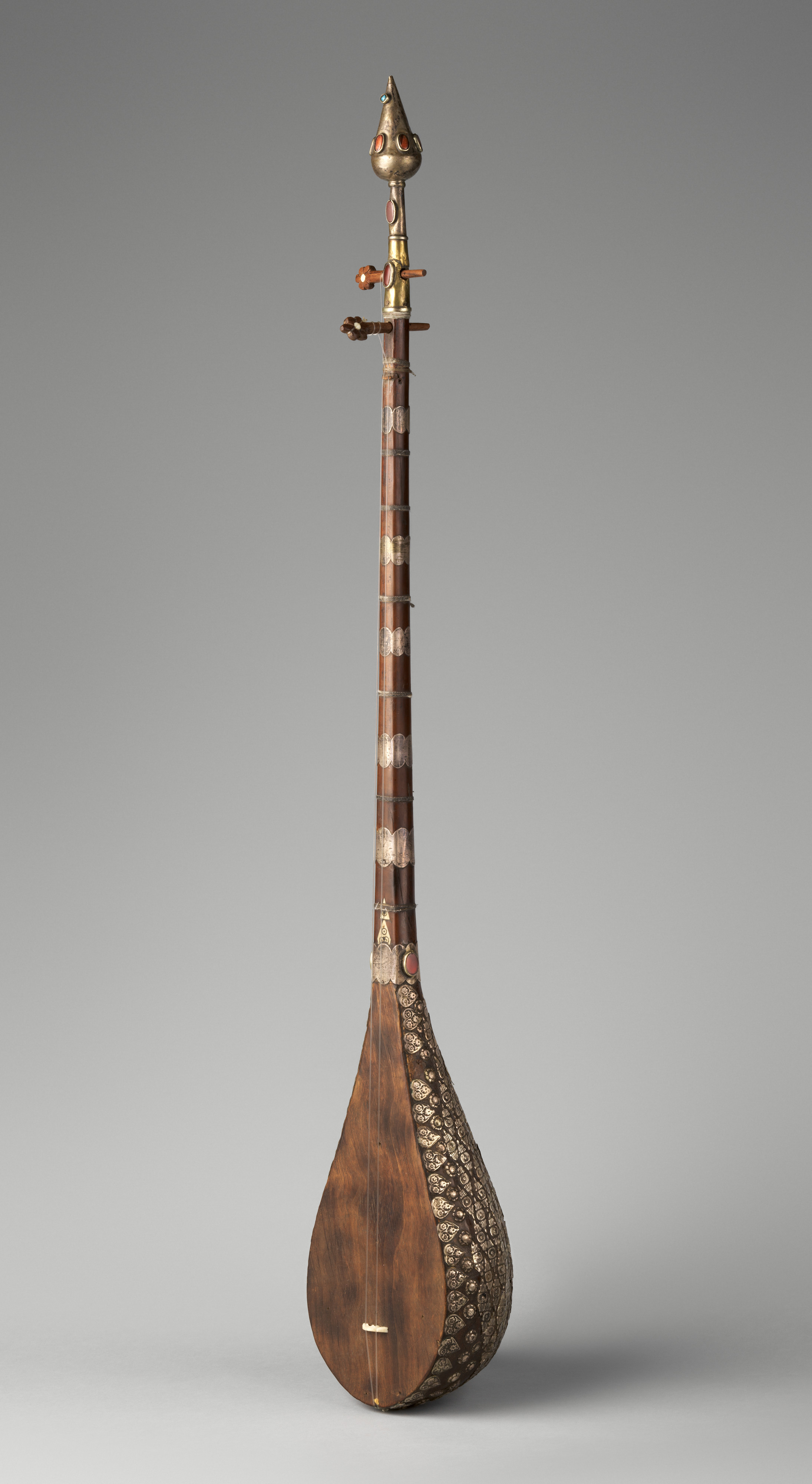 Afghan (Turkmen); Dutār; Chordophone-Lute-plucked-fretted